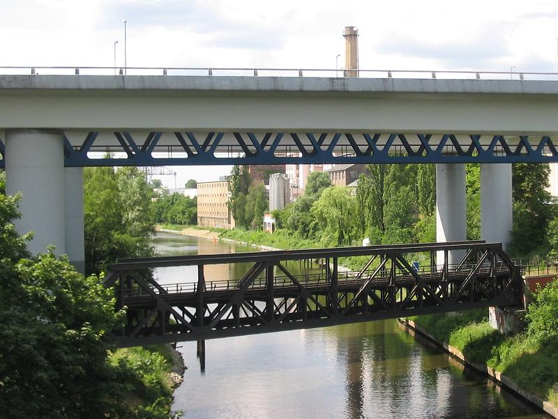 “Neukölln-Mittenwalder Eisenbahn“ (railway), founded in 1899 as „Rixdorf-Mittenwalder Eisenbahn“. Bridge over the Teltowkanal, under the bridge of the Autobahn „B 100“. Berlin-Tempelhof, Germany.